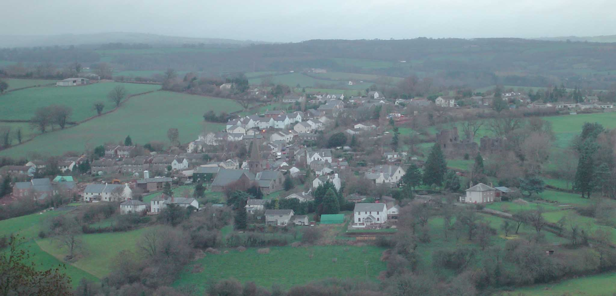 Grosmont from South East